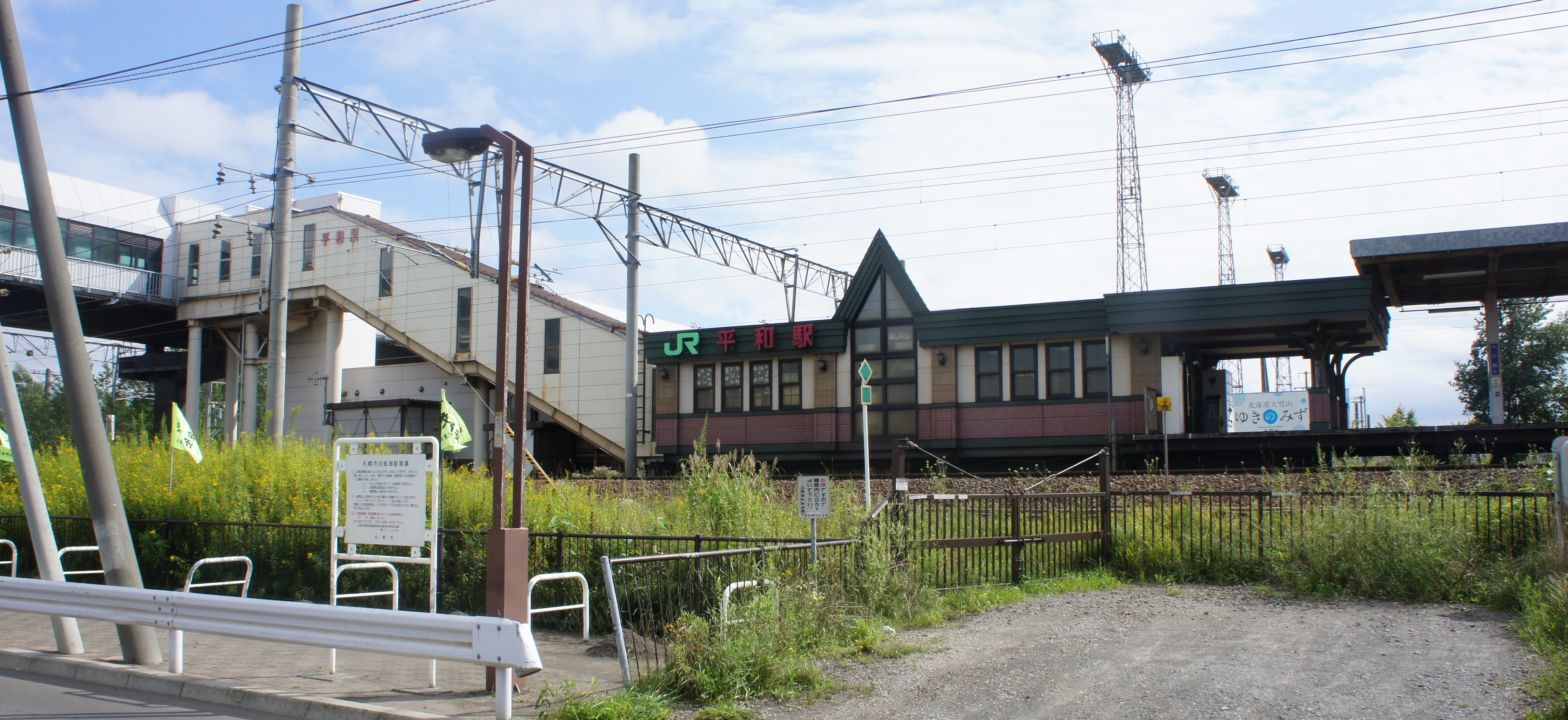 Station building of JR Chitose-Line Heiwa Station